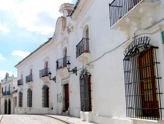 House-Palace of the Vargas-Zúñiga in Ribera del Fresno. Nowadays "Casa de la Cultura José María Vargas-Zúñiga"